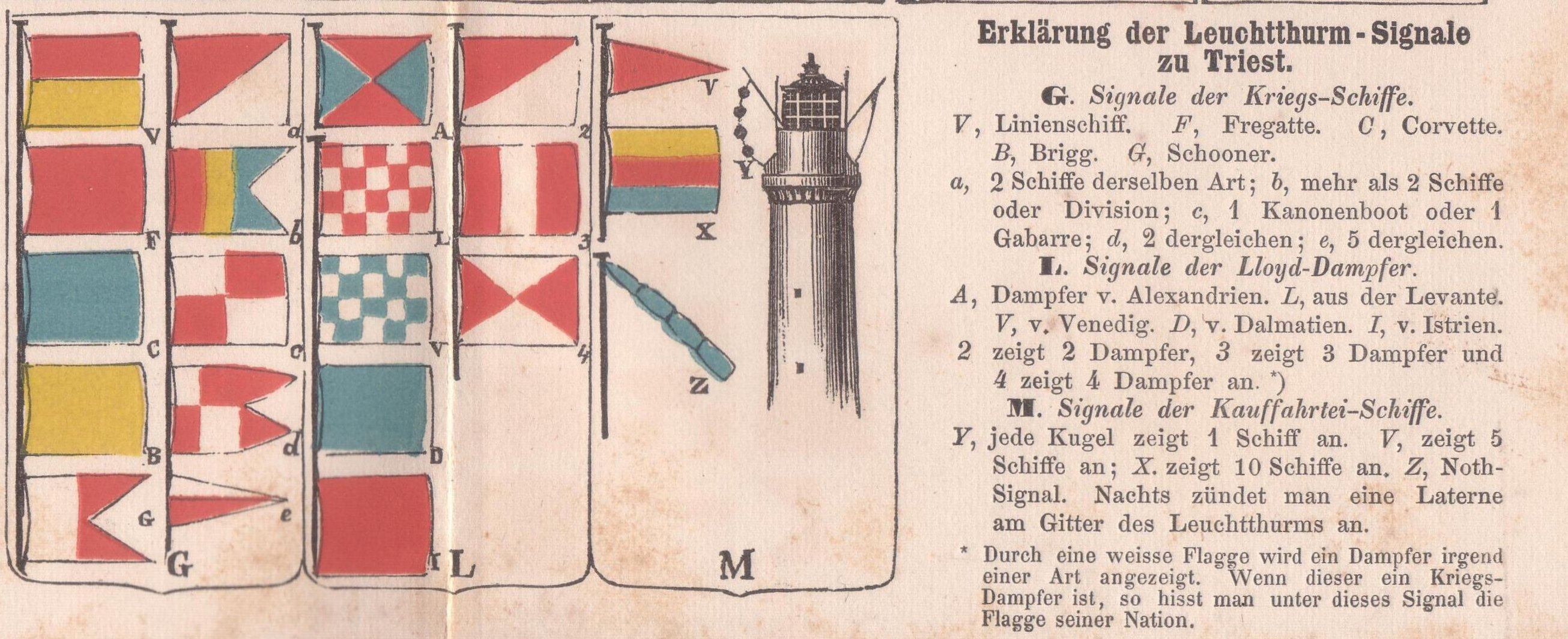 Chromaticity diagram with lighthouse signals